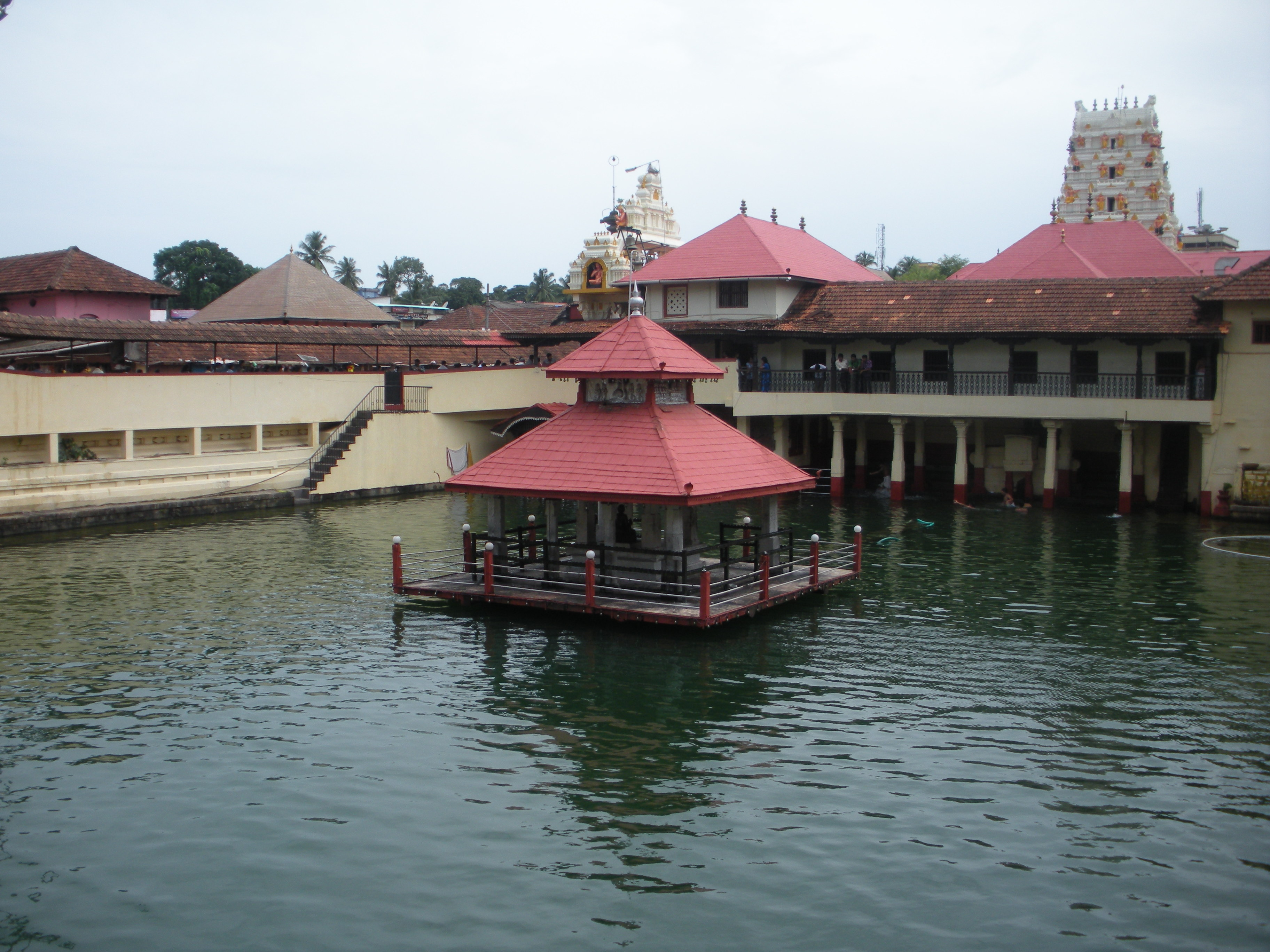 Pond of Udupi Shree Krishna Temple